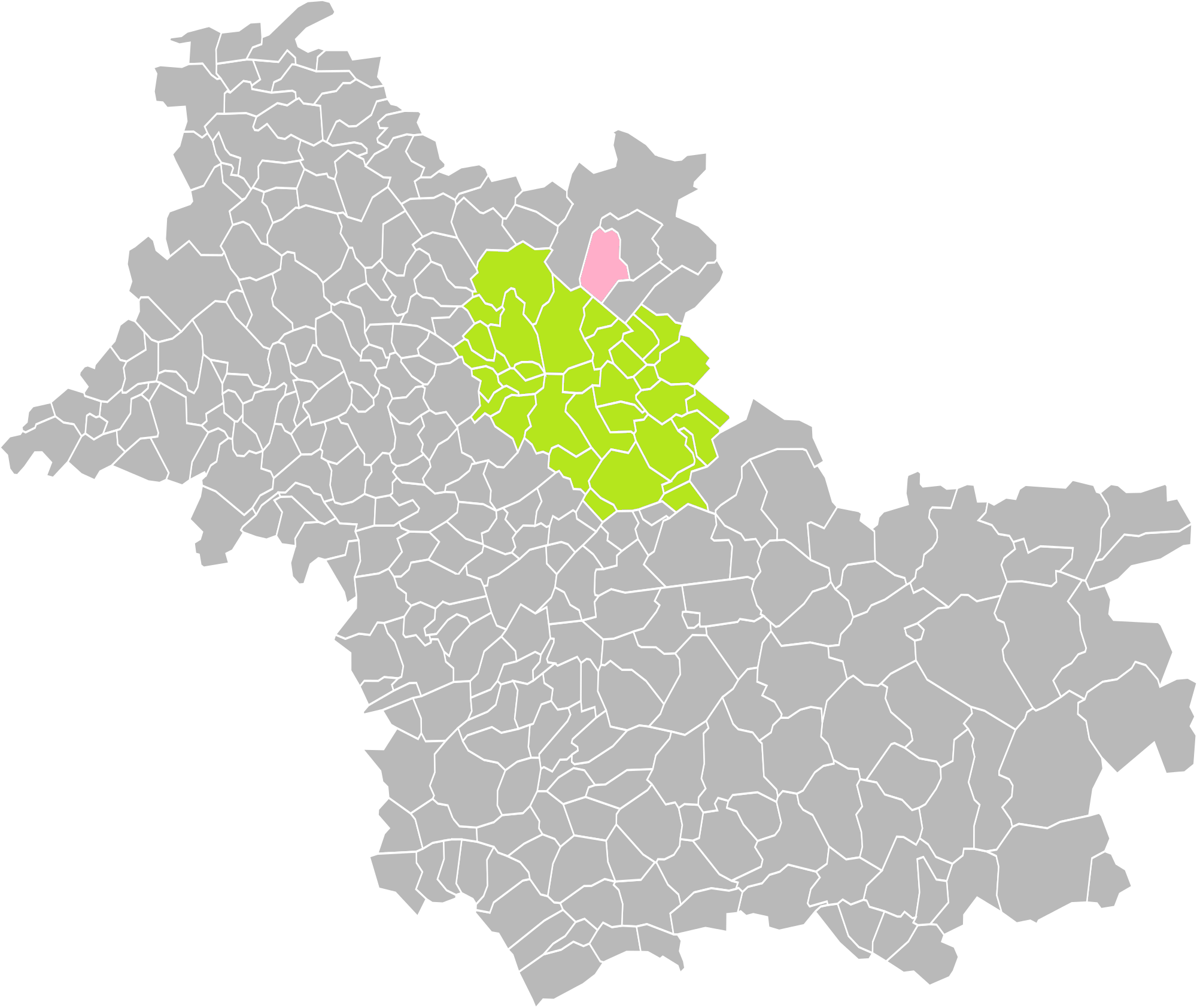 Location of the commune of Autainville in the Communauté de communes de la Beauce-Val de Loire (Loir-et-Cher)